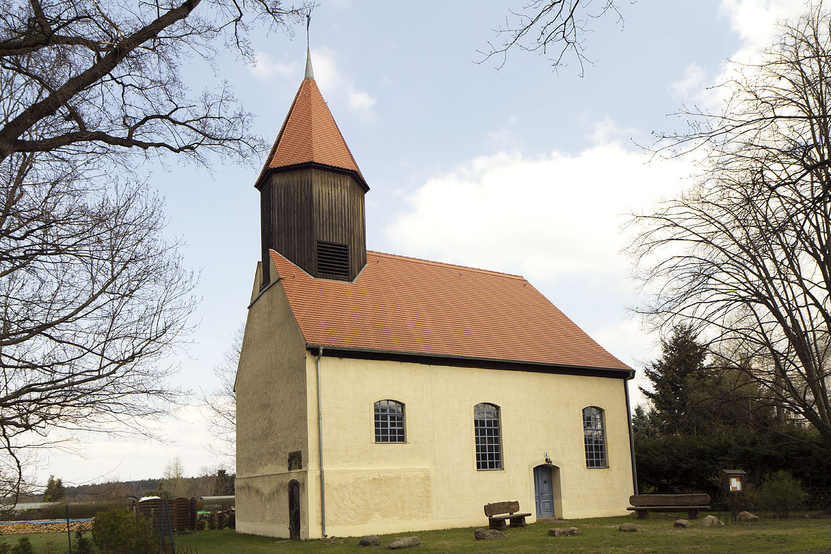 Church of Illmersdorf, Drebkau, Brandenburg, Germany